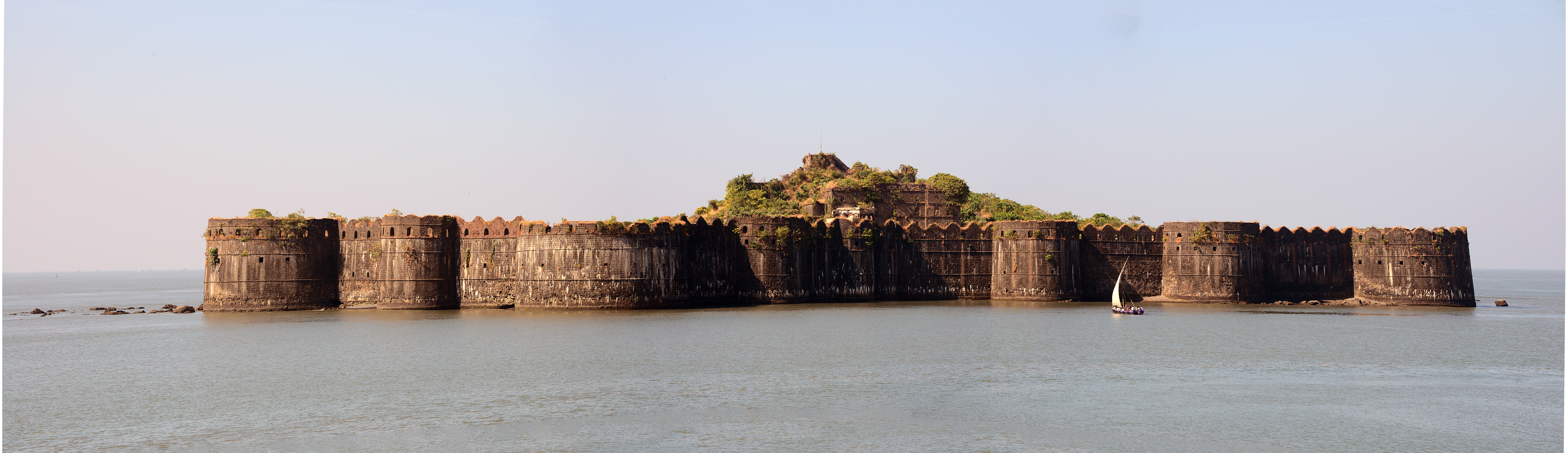 View of the for from land